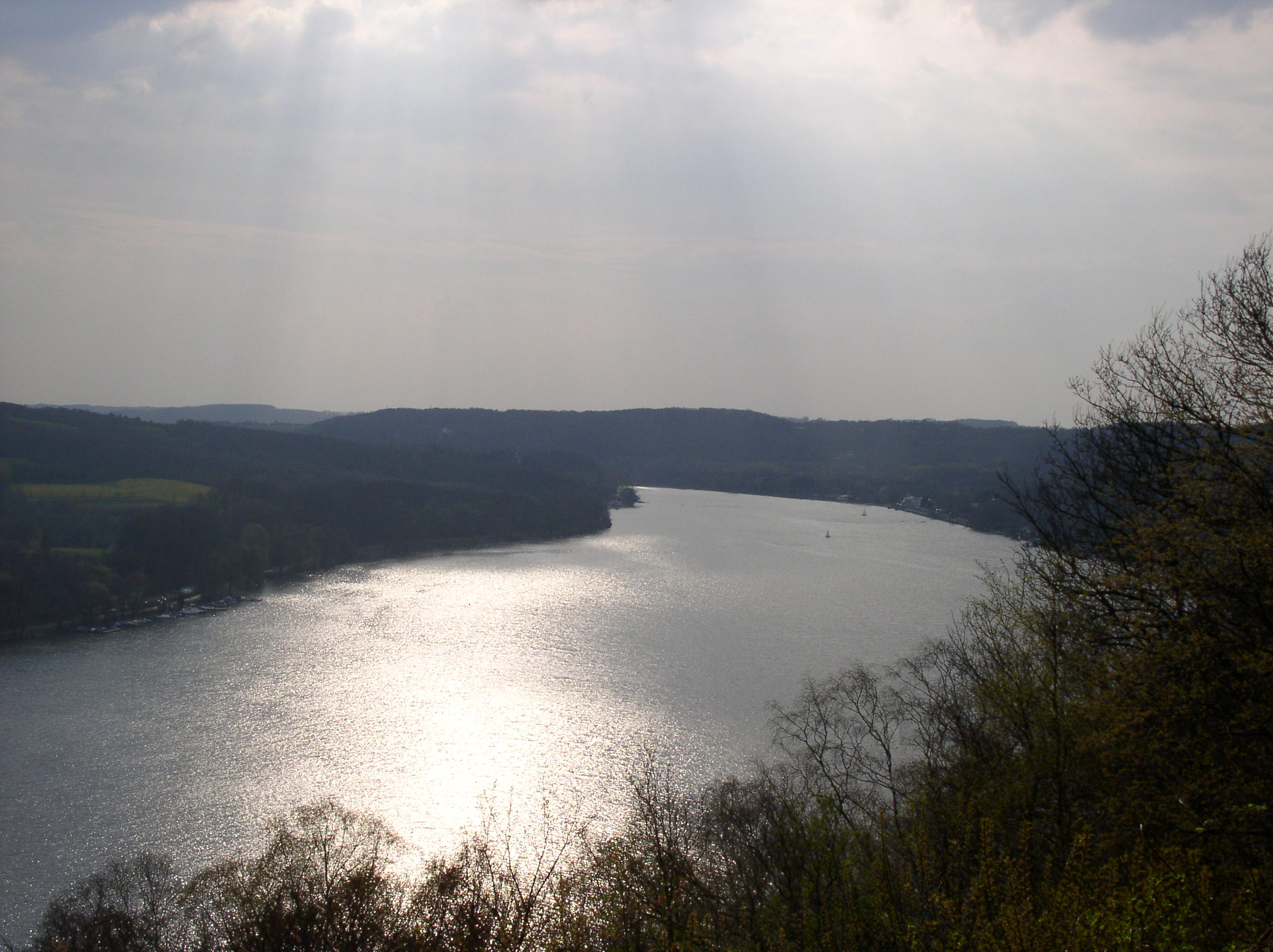 Description: Baldeneysee von der Korte-Klippe aus gesehen Source: photo taken by me, April 2005 Photographer: Baikonur